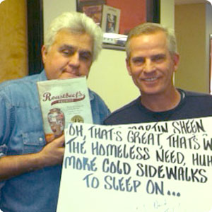 David and Jay Leno with the cue cards with David's jokes and Roastbeef's Promise book